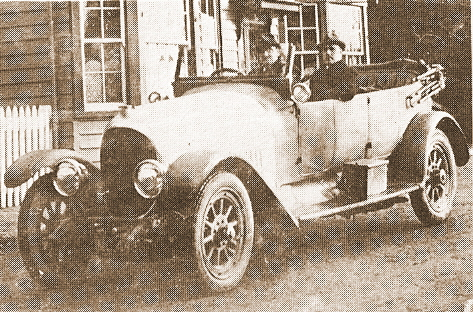 1920 British Ensign 38.4 hp